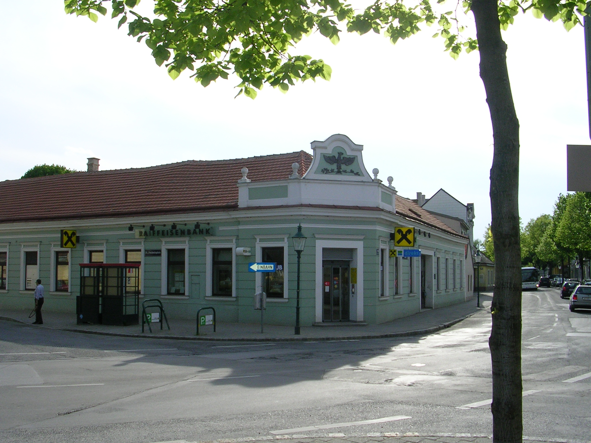 Former community guesthouse of Stammersdorf (Wien), now a bank